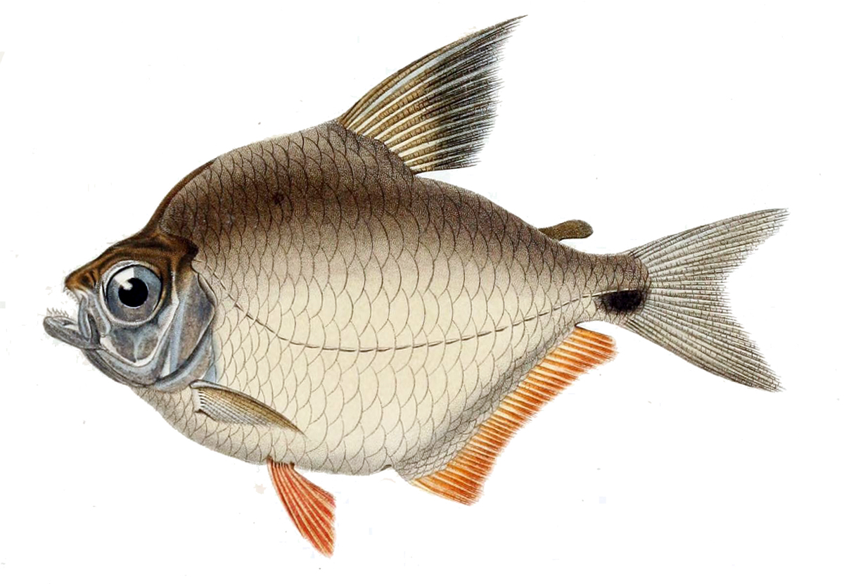 « Tetragonopterus rufipes » = Tetragonopterus rufipes